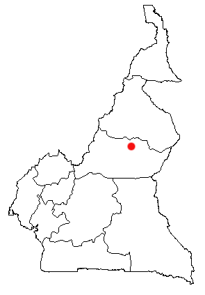 Ngaoundere, Cameroon Location Map; created with the GIMP. Made by User:Acntx.